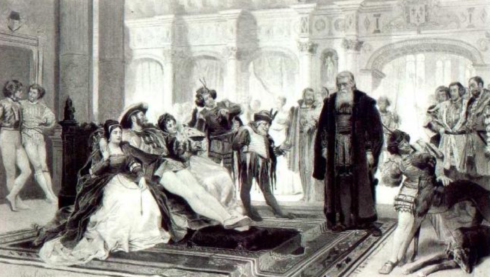 Hugo-Roi s'amuse-basis for Rigoloetto